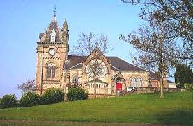 A photograph of Pitlochry Church of Scotland in Pitlochry, Perthshire, Scotland